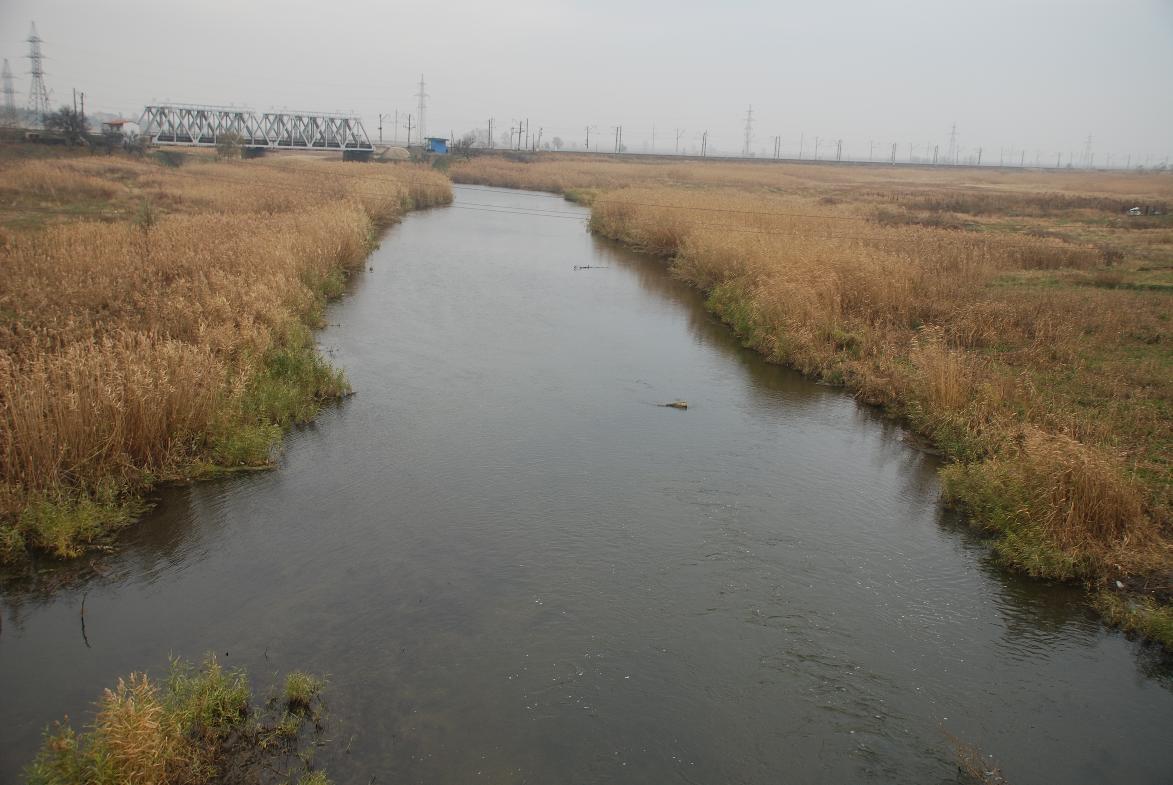 Tuzlov River near Khotunok.